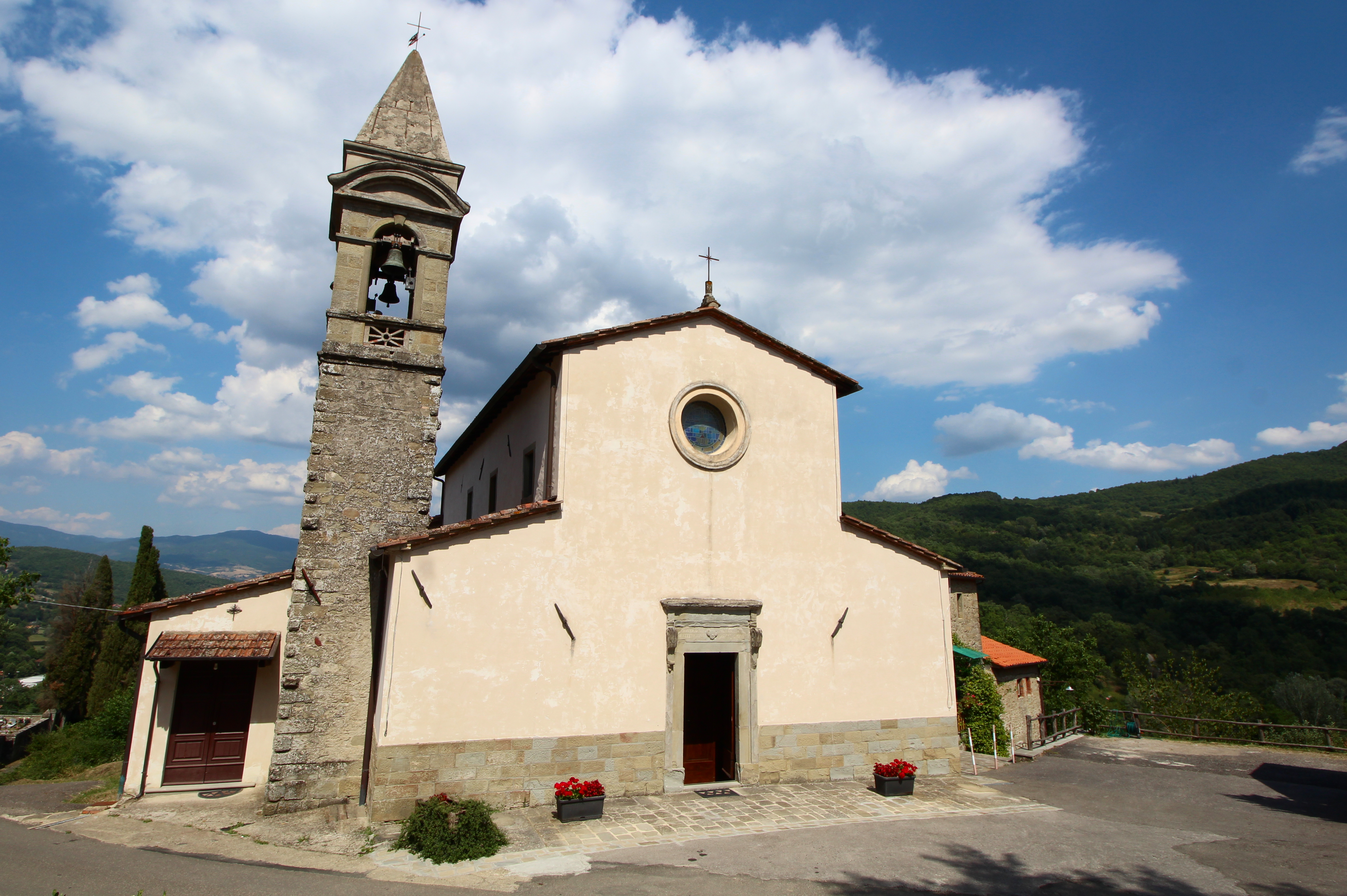 Church Santi Margherita e Matteo, near Ortignano, hamlet of Ortignano Raggiolo, Province of Arezzo, Tuscany, Italy